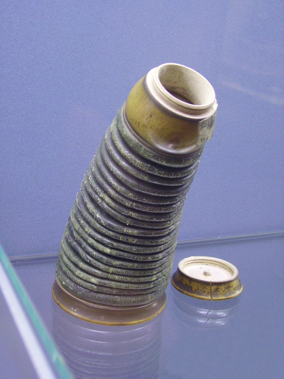 Author Mike Young Taken at the London Science Museum